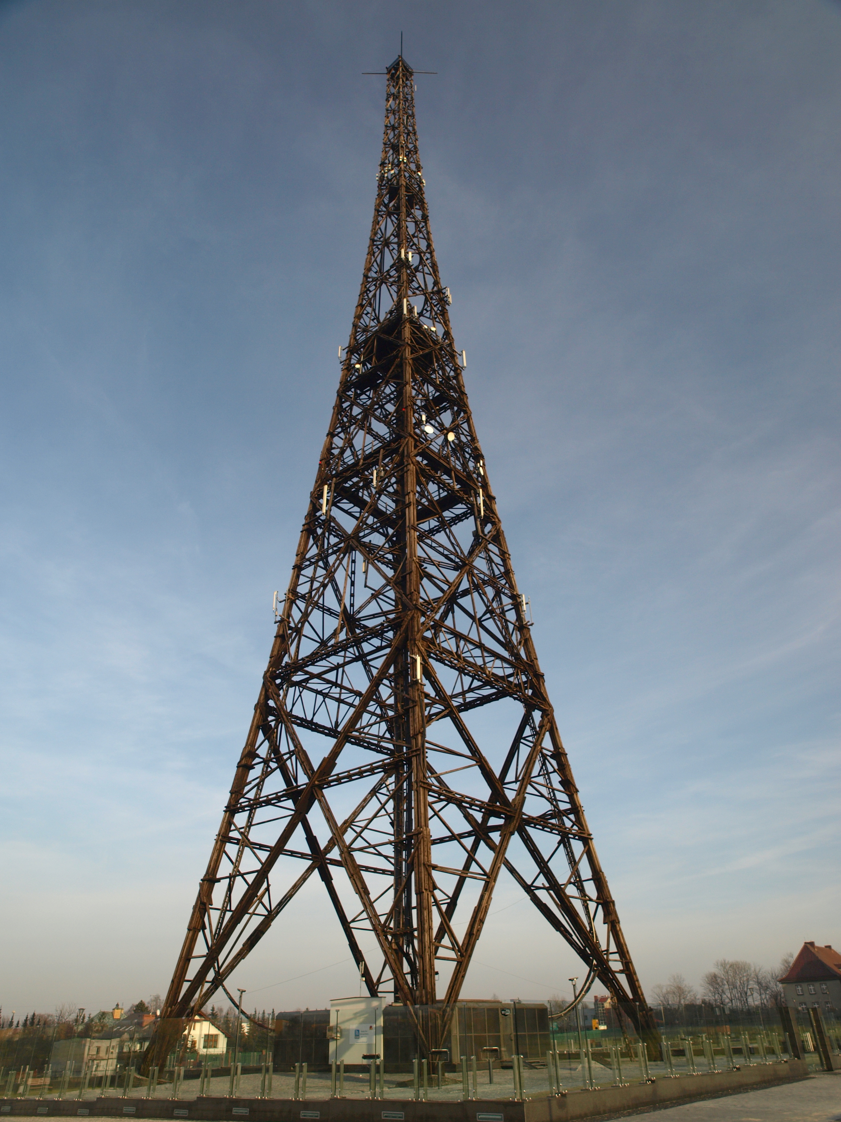 Wooden radio tower in Gliwice, condition in February 2011